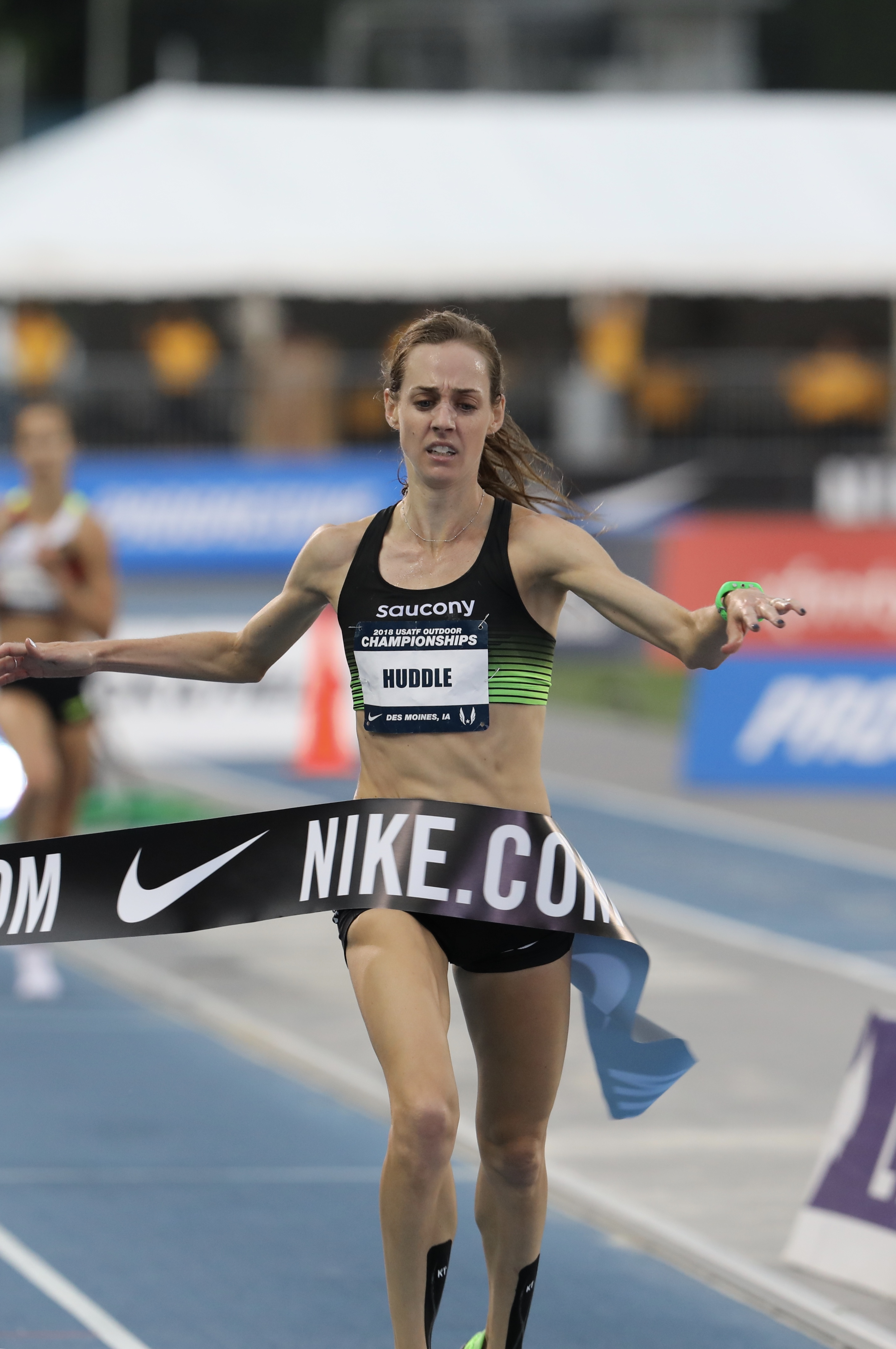 2018 USA Outdoor Track and Field Championships